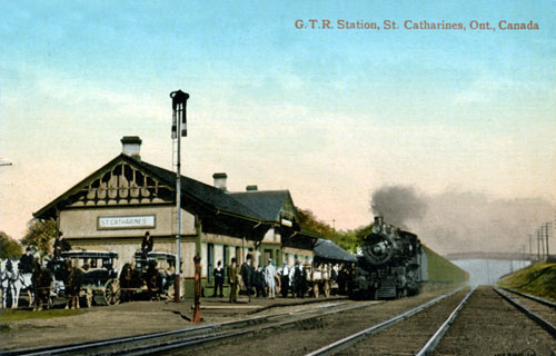 Postcard showing the GTR station in St. Catherines.